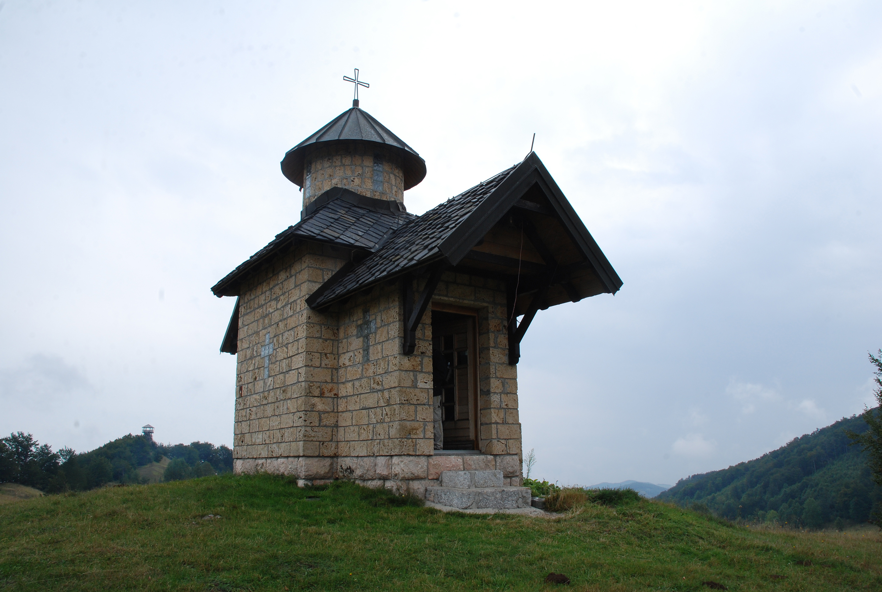 Povlen- western Serbia - place Kneževo polje - Church on Kneževo Polje 5